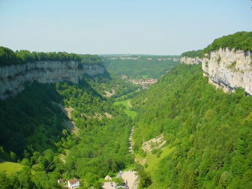 Baume-les-Messieurs in a blind valley in the French Jura